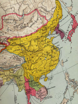 Map of Asia and Western Pacific during the Ming Dynasty (China)